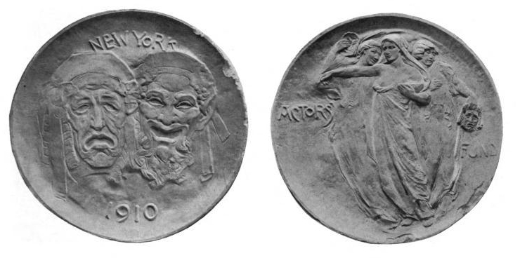 Actors Fund Medal of Honor, obverse (left) and reverse (right)